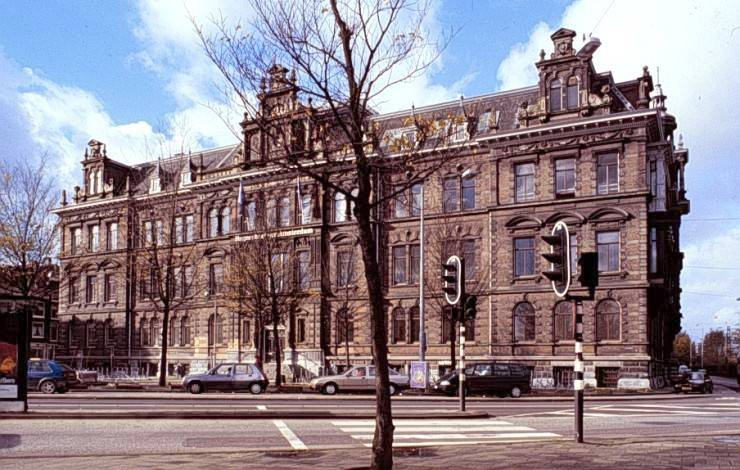 Picture of the former headquarters of the Hollandsche IJzeren Spoorweg-Maatschappij.